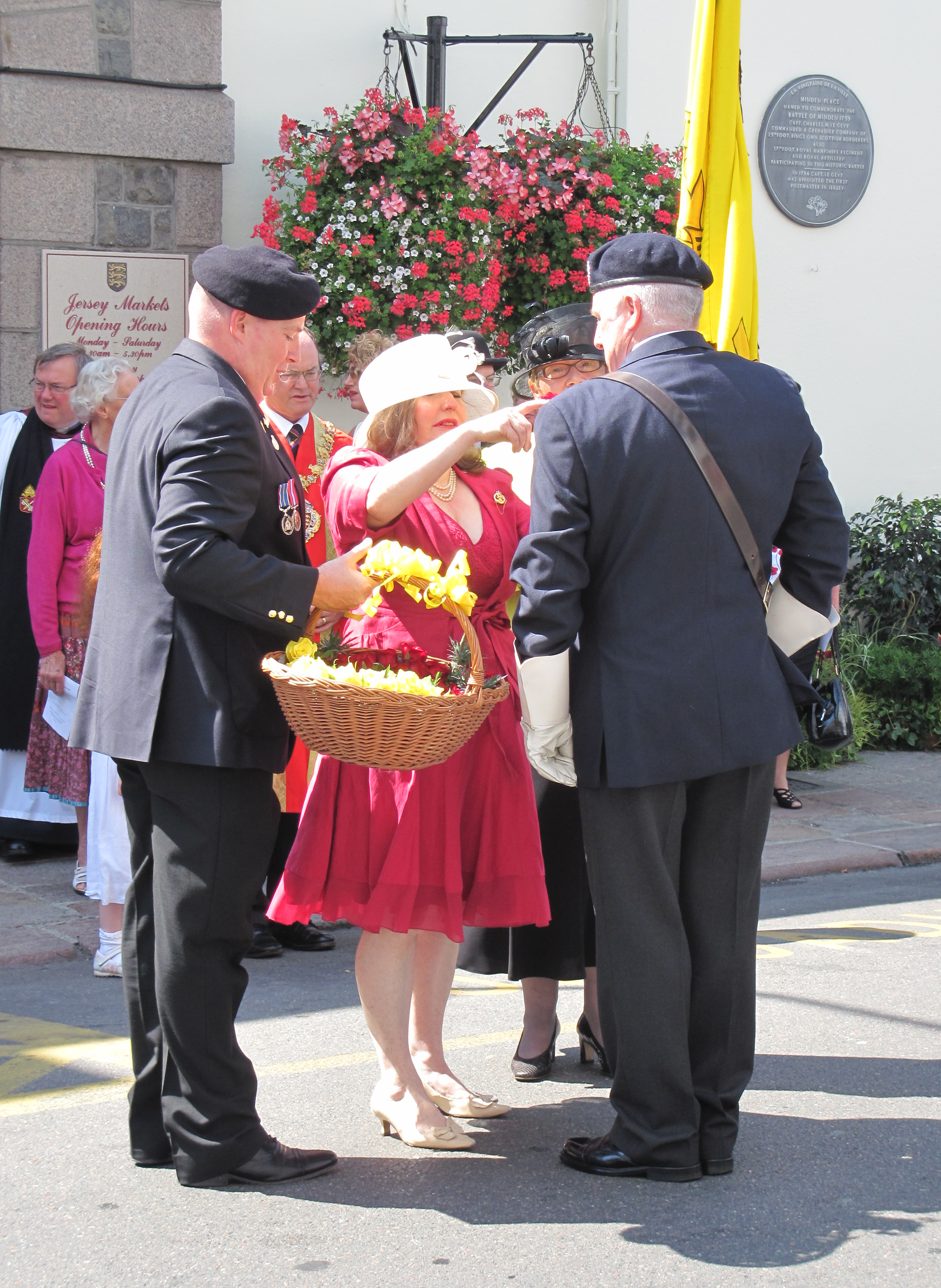 Minden Day ceremony in Minden Place, Saint Helier, Jersey, 2011. Parade, service, presentation of roses, and laying of a rose wreath.